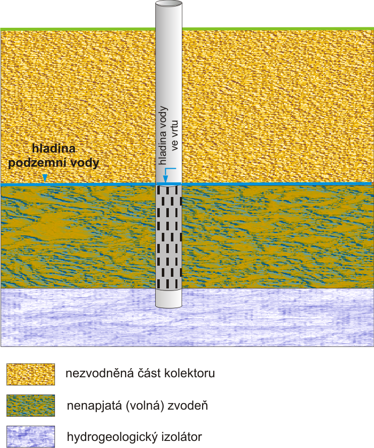 Unconfined groundwater body